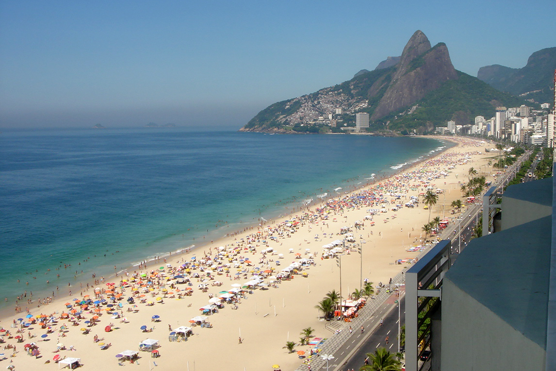 Panoramic view of Ipanema and Leblon beaches, Rio de Janeiro, Brazil